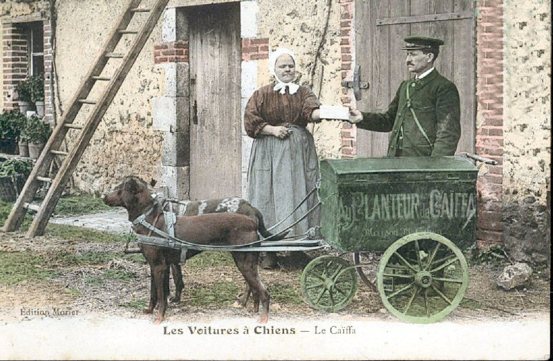 Postal cart drawn by dogs with an advertisement of the french company of coffee "Au Planteur de Caiffa"